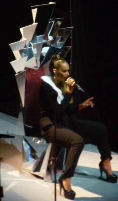 Leona Lewis, I to You, Royal Albert Hall, 9th May, Glassheart Tour 2013